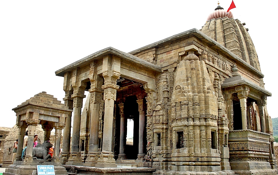 Thirteenth century shiva temple located in Baijnath, near Palampur in Himachal Pradesh. The city of Baijnath is named after temple's name, dedicated to lord Siva as Vaidyanath. . .